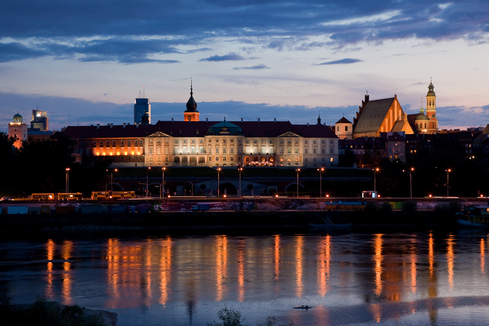 The Royal Castle, view by The Vistula River